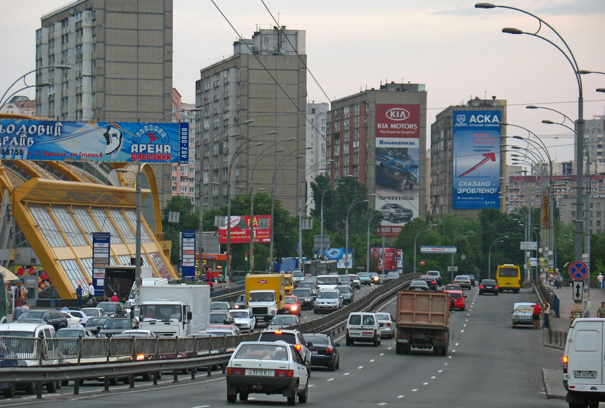 Het'mana Vadima street in Kyiv